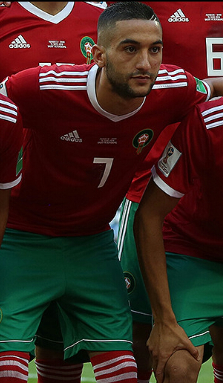 Iran-Morocco match, 2018 FIFA World Cup